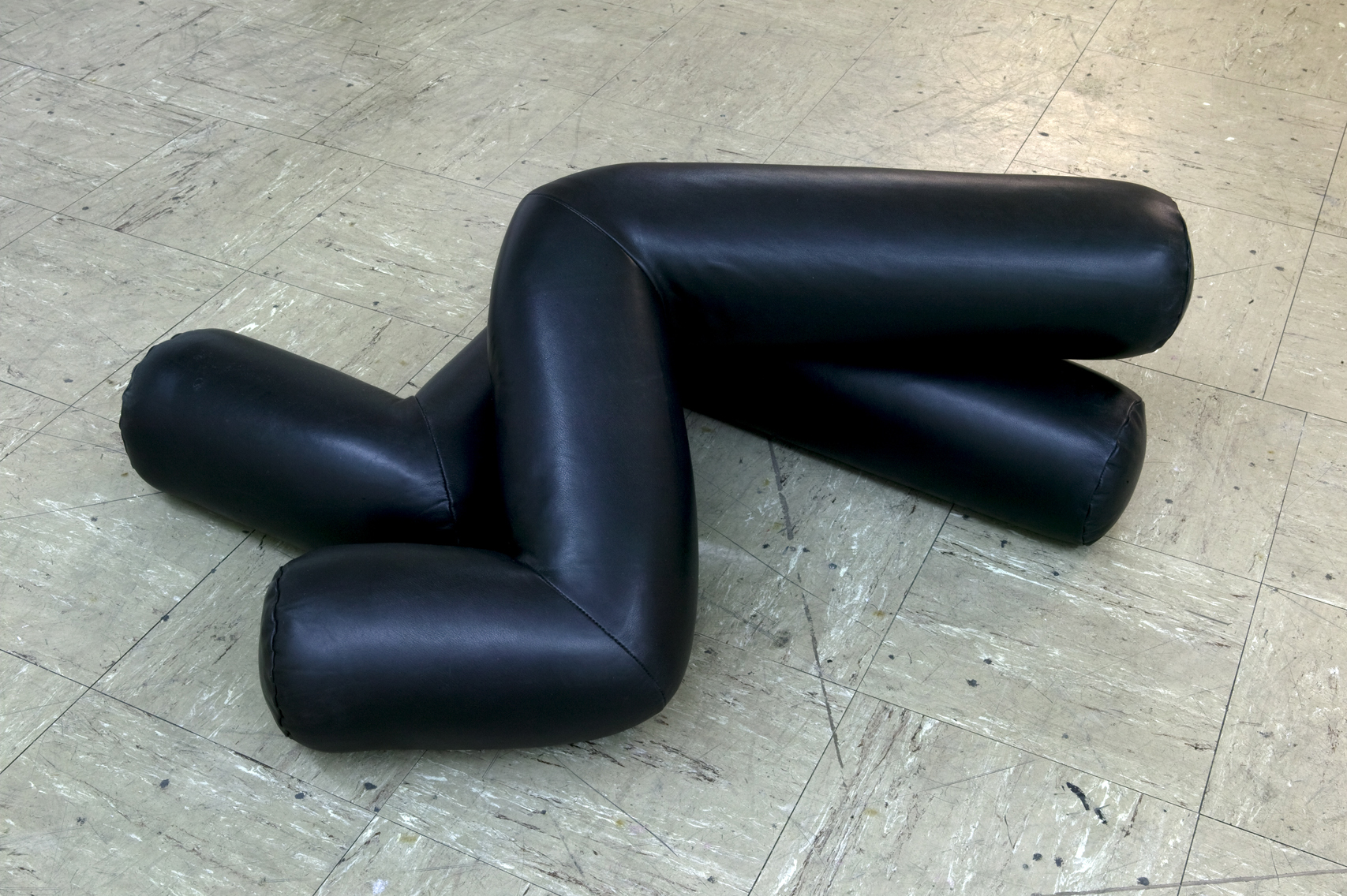 Installation view of the artwork "Joe" by Ana Roldán. Ana Roldán, Joe, 2008, Leather, Wood, 29 x 100 x 45 cm